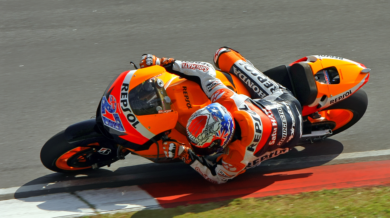 Casey Stoner @ Sepang MotoGP